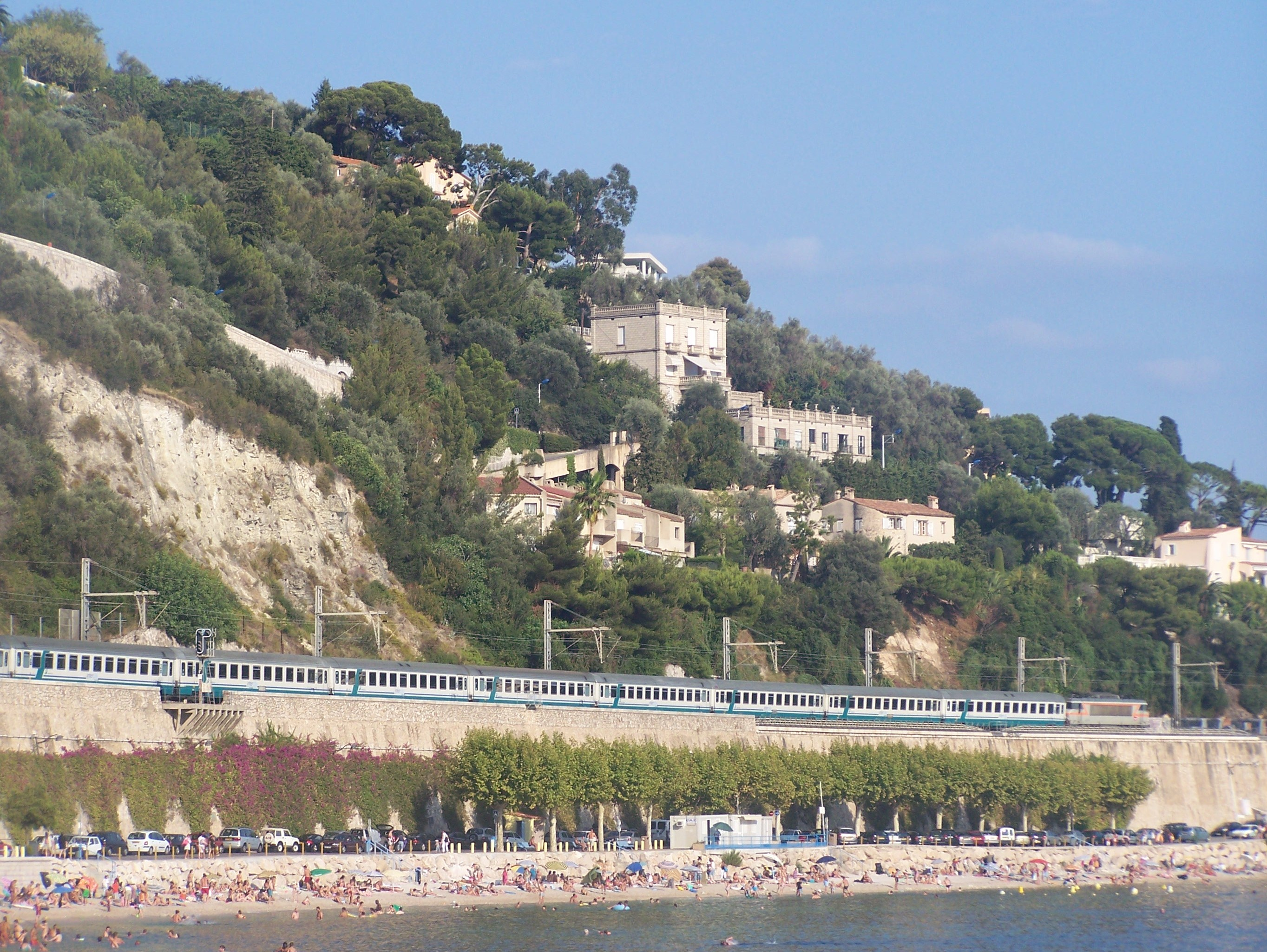 Italian carriages led by a French locomotive are bound for Italy and passing between Nice in Alpes-Maritimes (France) and Monaco.